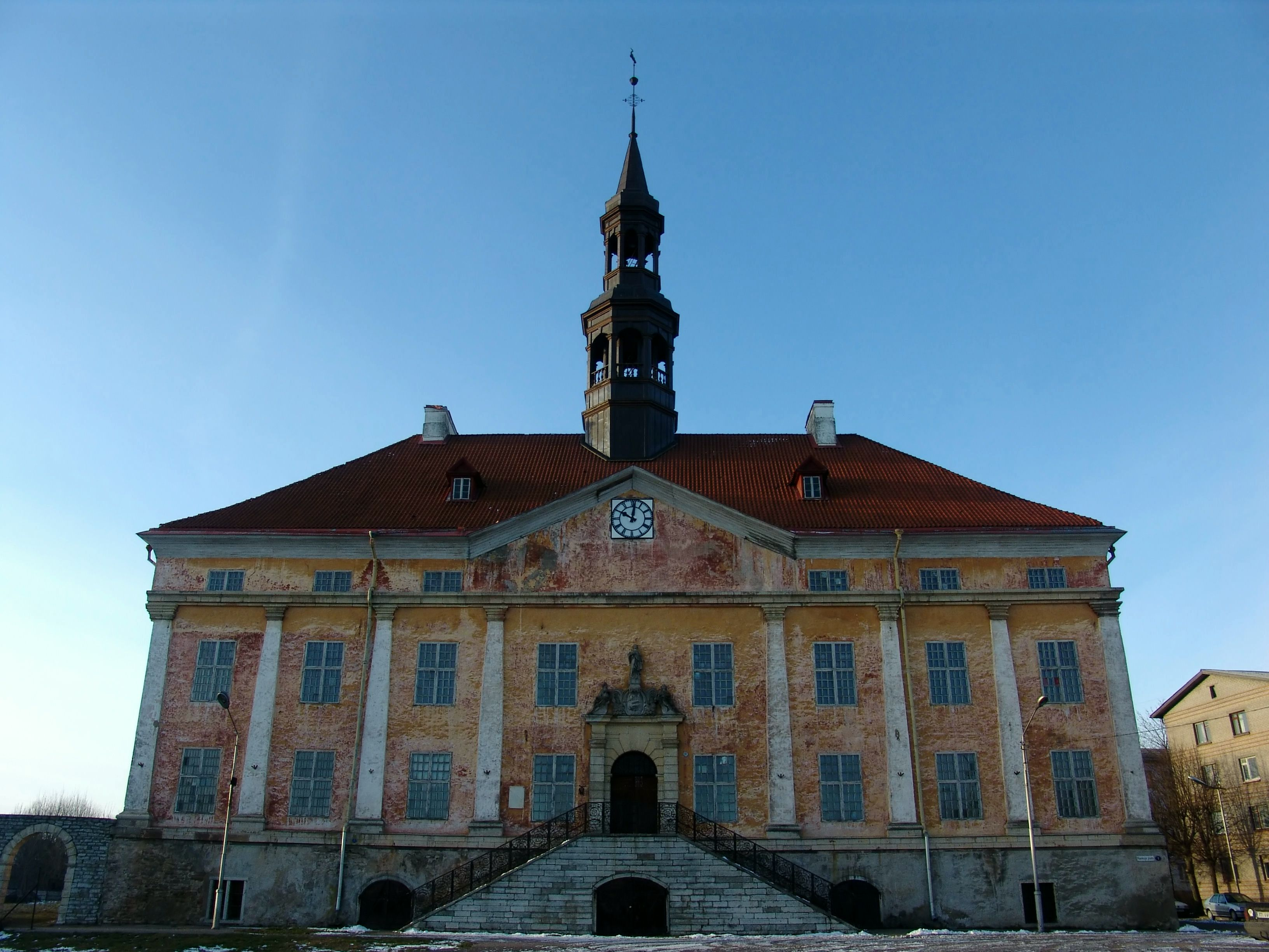 Narva Town Hall.